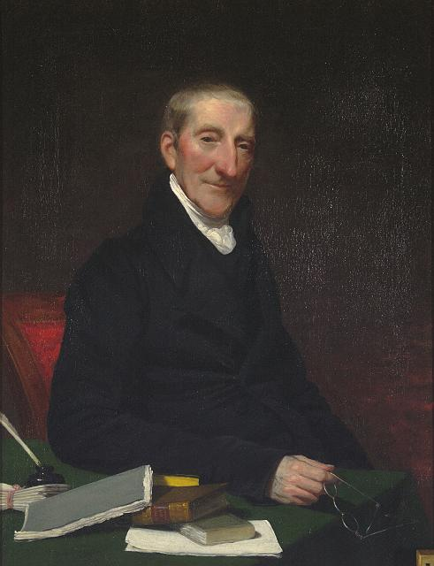 William Denning, New York City merchant and legislator.